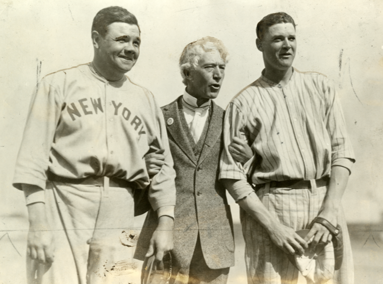 Commercial press photo distributed to newspapers by Keystone, of Baseball Commissioner Kenesaw Mountain Landis, after turning down Babe Ruth and Bob Meusel (on left and right of Landis) at the Yankees Spring Training Camp, New Orleans, March 1922. The image, on the reverse side, bears text describing the event shown and rubber stamp impression" LAST TIME USED MAR 28 1922", which demonstrates pre-1923 publication in the periodical whose files the photo in the Hall of Fame's possession came from. Original photo, with markings on back, available at National Baseball Hall of Fame Library, Cooperstown, N.Y., image folders for Landis, Kenesaw Mountain. The uploader retains a photocopy of the markings on the reverse of the photo, which can be uploaded if there is ever a need.